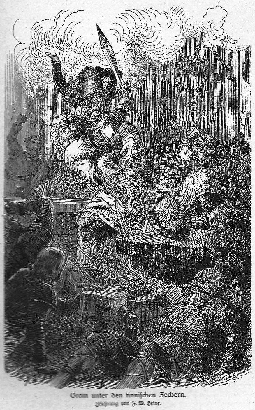 (Danish king) Gram among Finnish boozers (kidnapping Princess Syngi/Signi/Signe, daughter of King Sumbli/sumble/Sumle/Sumli/Sunmble of Finland)